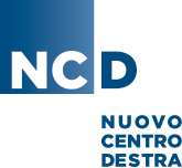 Nuovo Centrodestra